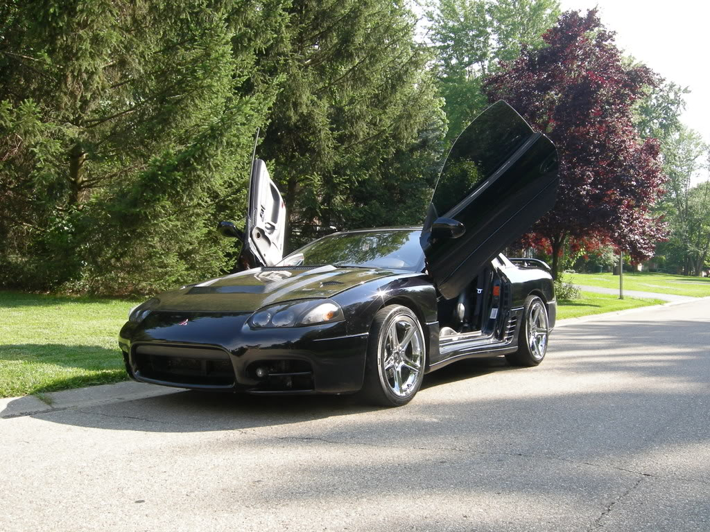 My 3000gt VR-4